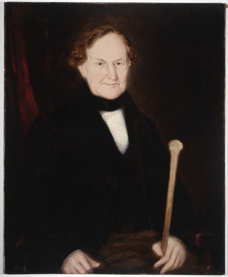 Portrait of Andrew Hamilton Hume, Australian farmer and convict superintendent, 1843-1849, oil painting by Joseph Backler